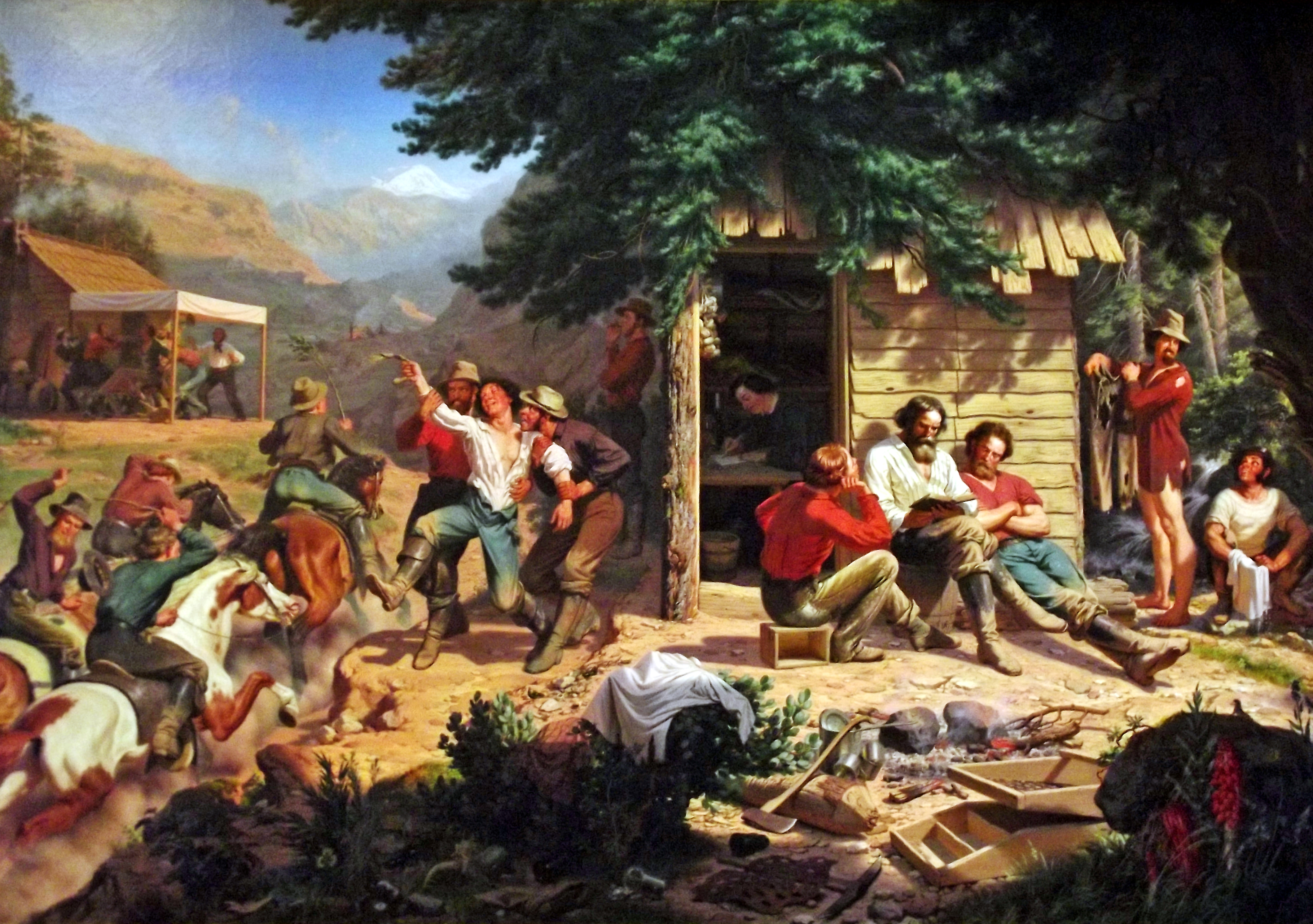 (Sierra Nevada of California)